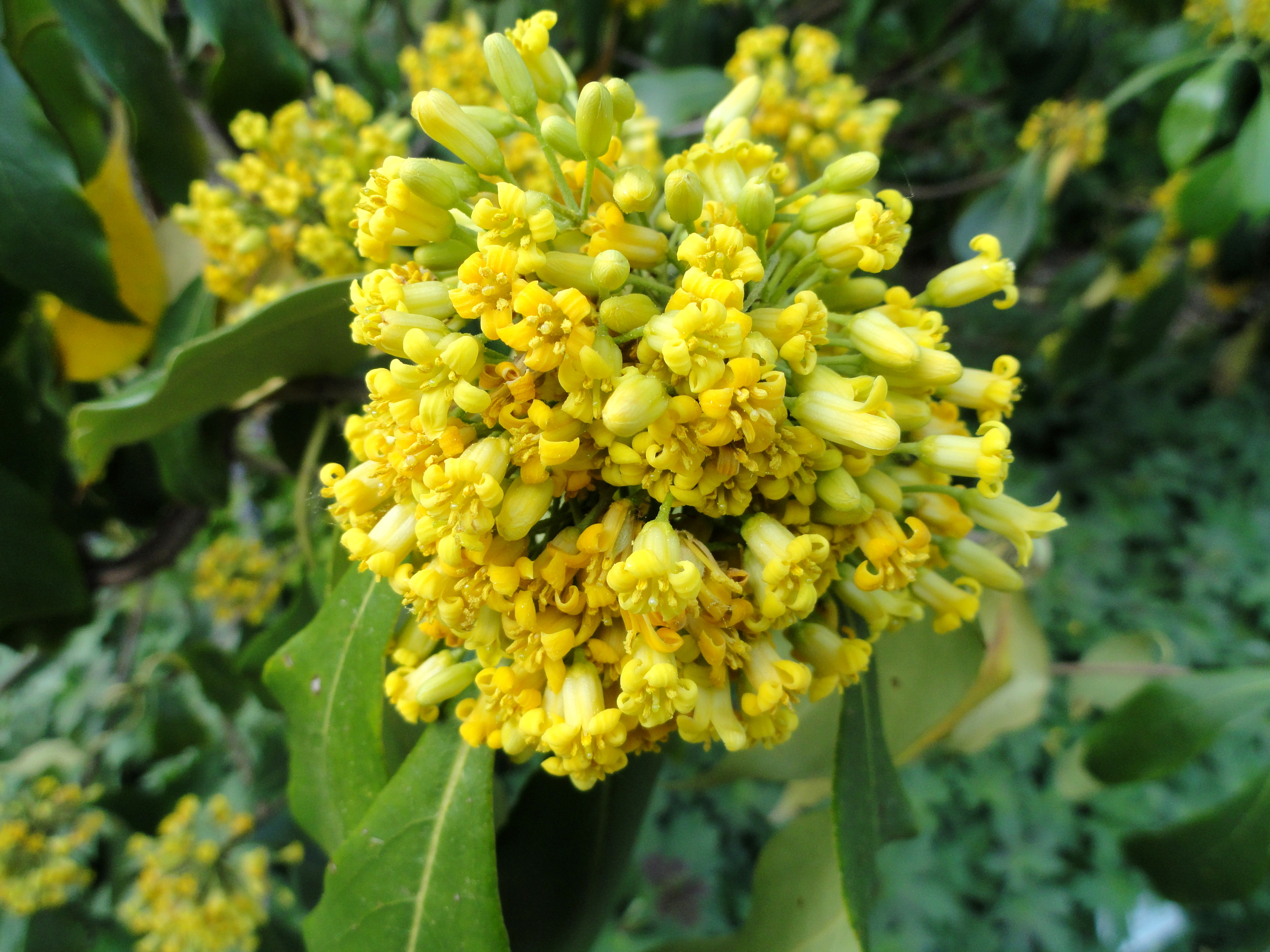 Pittosporum brevicalyx specimen in the Botanischer Garten Freiburg, Freiburg im Breisgau, Baden-Württemberg, Germany.